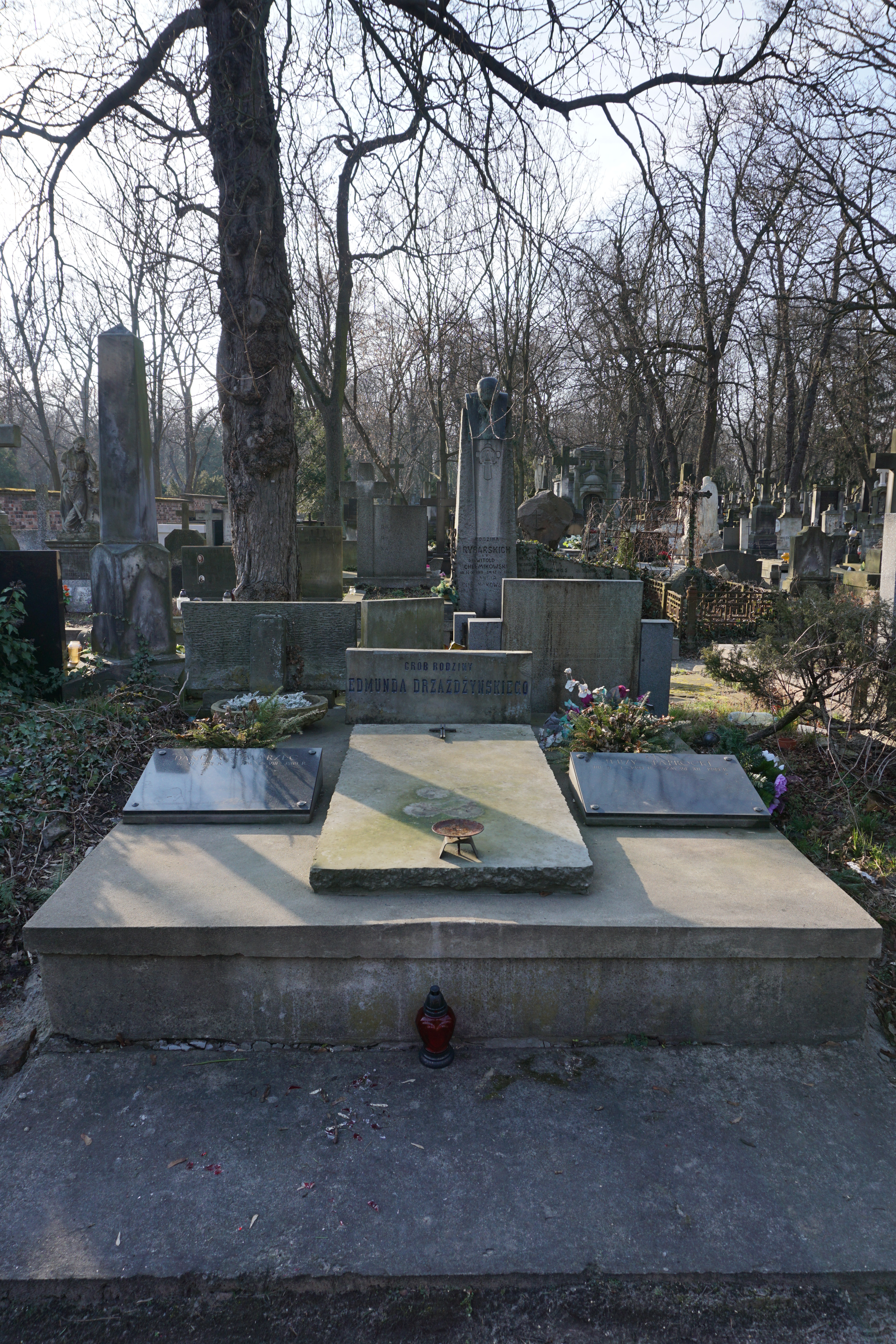 The grave of Helena Drzażdzyńska at the Powązki Cemetery (section 174, row 3, grave 35, 36)